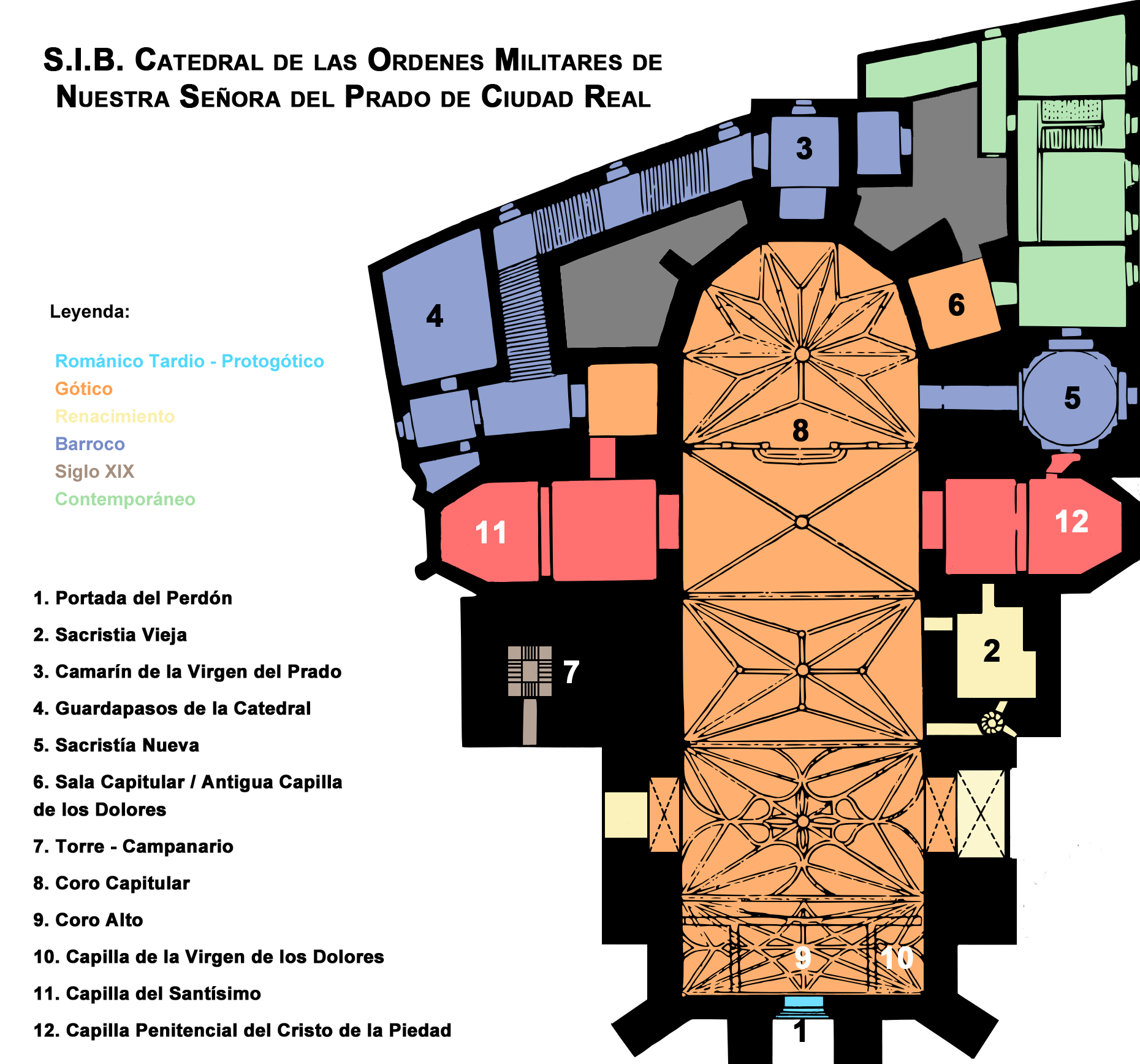 Floor of the Cathedral of Ciudad Real